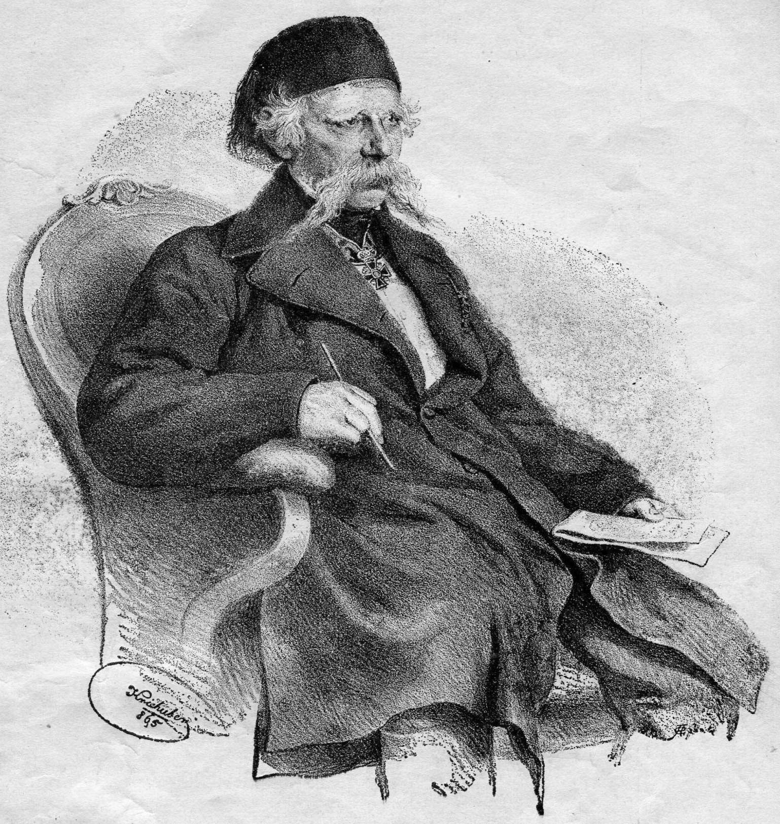 Portrait of Vuk Karadžić by Josef Kriehuber, published by Zora. 2 (1897).